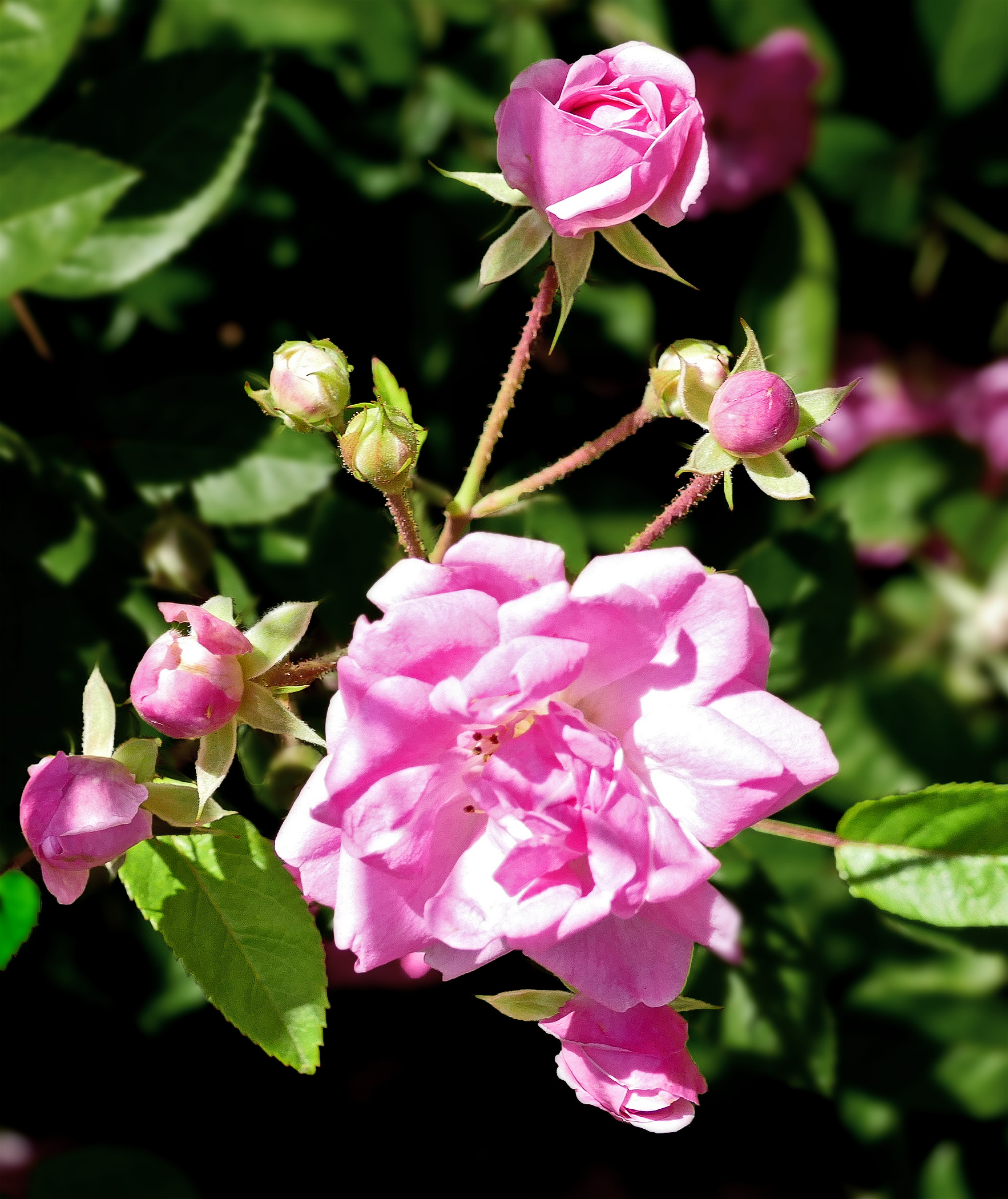 The "Peggy Martin Rose" survived 20 feet of salt water over the garden of Mrs. Peggy Martin, Plaquemines Parish, Louisiana, after the destruction of Hurricane Katrina. This is a climbing thornless rose. It is not attractive closeup but beautiful from a short distance